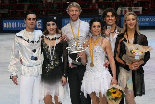 The ice dancing podium at the 2008 Trophée Eric Bompard. From left to right: Federica Faiella / Massimo Scali (2nd); Isabelle Delobel / Olivier Schoenfelder (1st); Sinead Kerr / John Kerr (3rd).